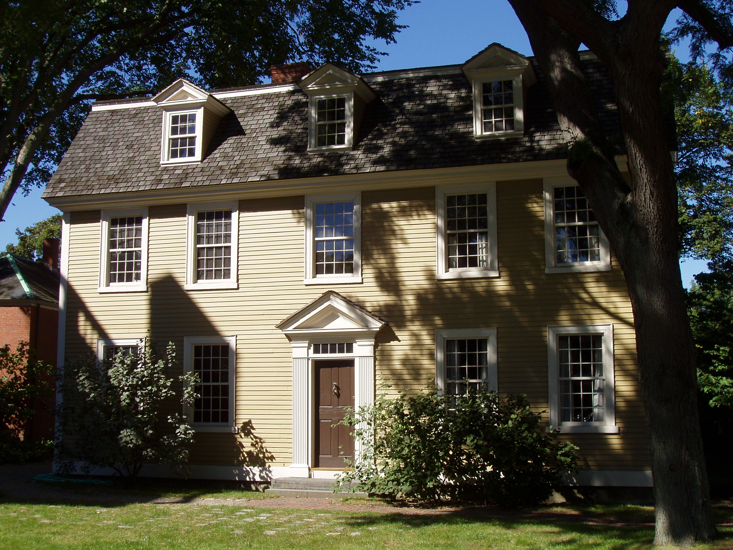 Crowninshield-Bentley House - Salem, Massachusetts. Photograph taken by me, September 2005. de: Bild:Crowninshield-Bentley House - Salem, Massachusetts.JPG